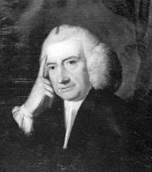 William Borlase (1695–1772)